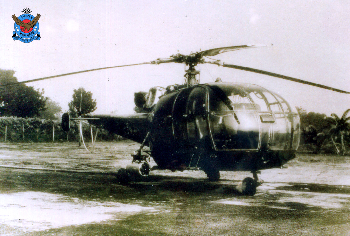 Old photo archive of Bangladesh Air Force